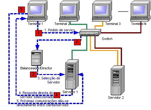 Description Load balancing with Direct Routing Source/Author Nuno Tavares